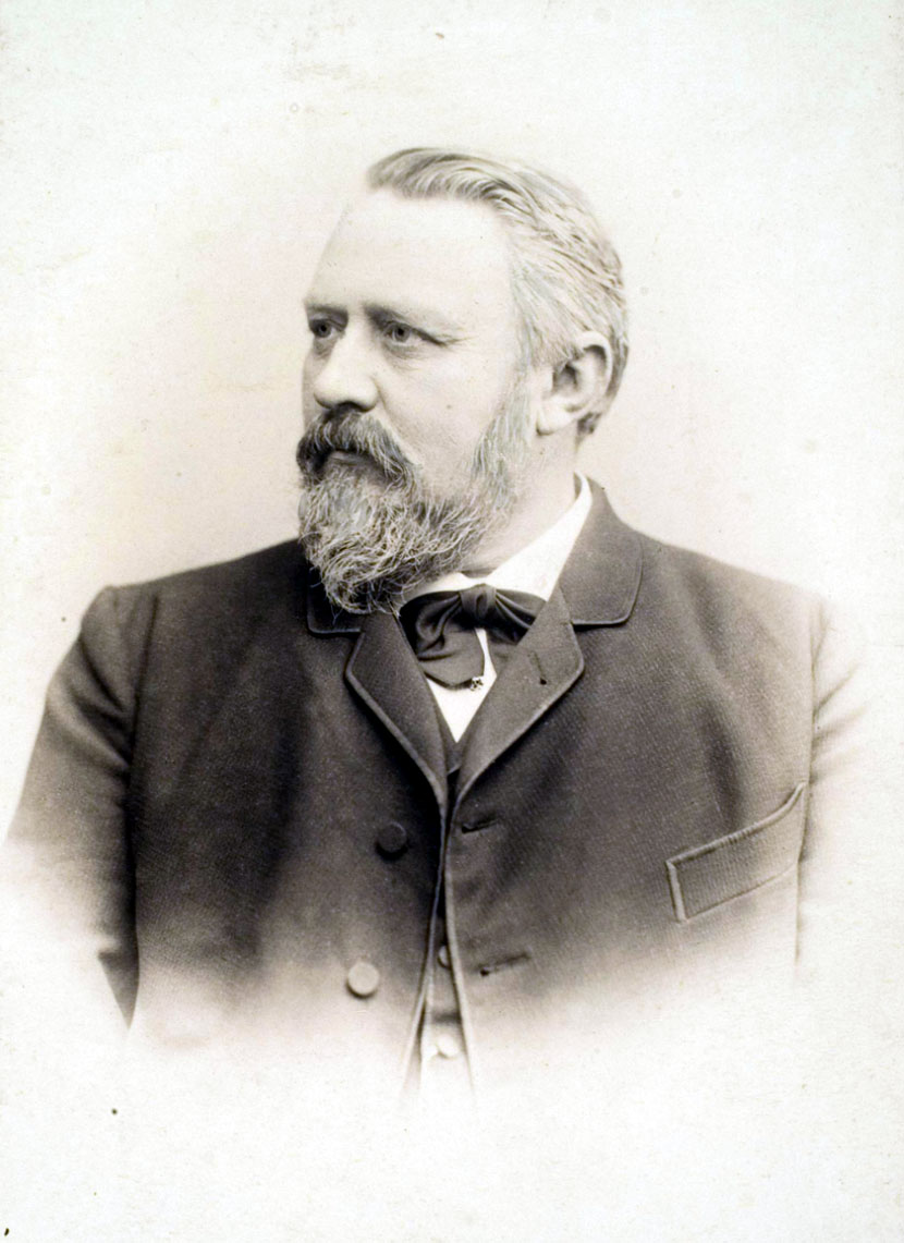 Georg Christian Wilhelm Meyer (1841-1900) german legal scholar and politican